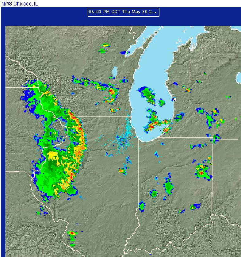 A bow echo around chicago